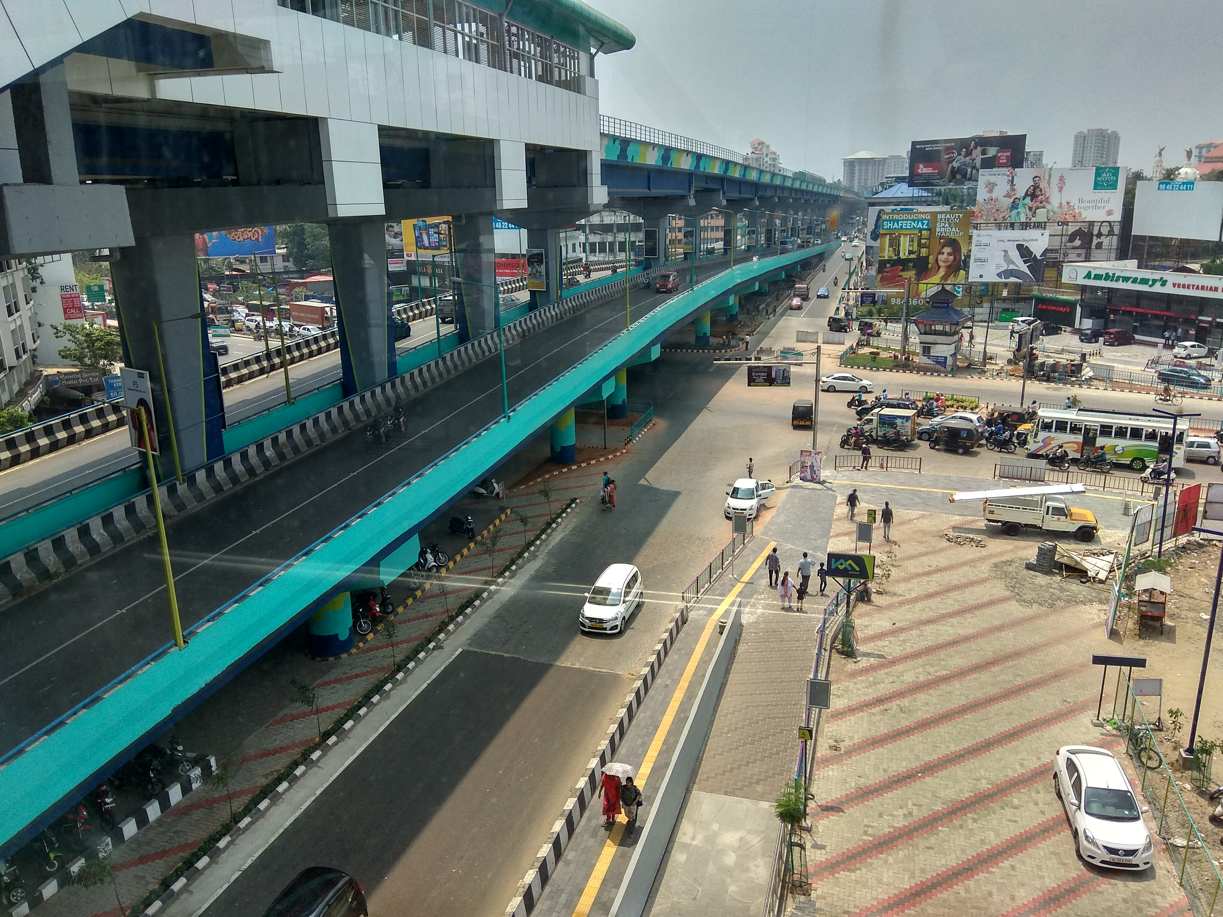 Edapilli as viewed from the metro station